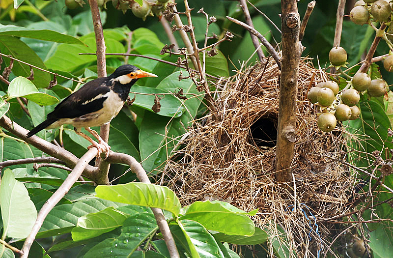 Asian Pied Starling Sturnus contra in Kolkata, West Bengal, India.